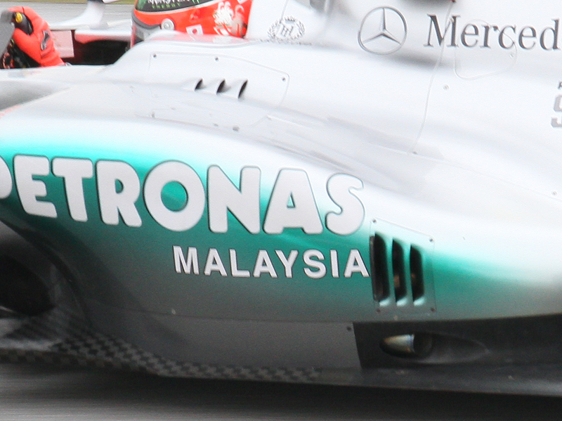 Formula One 2011 Rd.2 Malaysian GP: Mercedes MGP W02's forward exhaust.